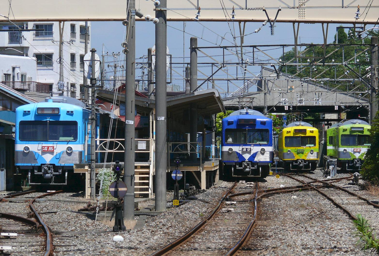 Nagareyama-Dentetu Railway Nagareyama-Station-premises(Japan,Chiba,Nagareyama City). It takes a picture from the public road near Nagareyama-line Nagareyama-station. See also Ja:総武流山電鉄総武流山線 for more information(written in Japanese). 流鉄流山線の流山駅構内を南側より望む。 公道より撮影。 駅の所在地は千葉県流山市流山。